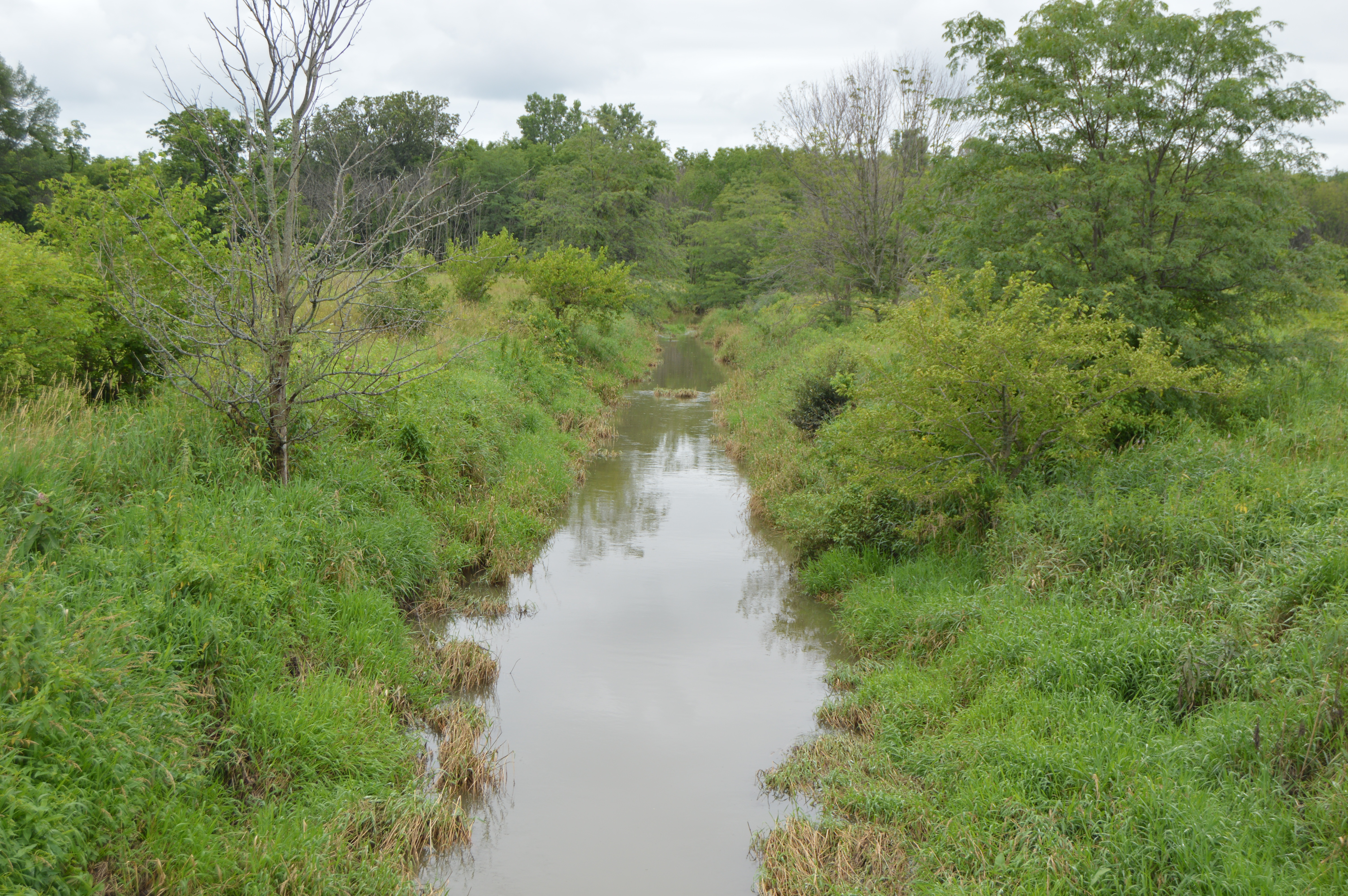 The Scioto River near its source, seen from the first road bridge that crosses the river; the water level is abnormally high due to sustained rain in recent days. Photo looks north from the Township Road 180 bridge northwest of Roundhead in far western Roundhead Township, Hardin County, Ohio, United States.